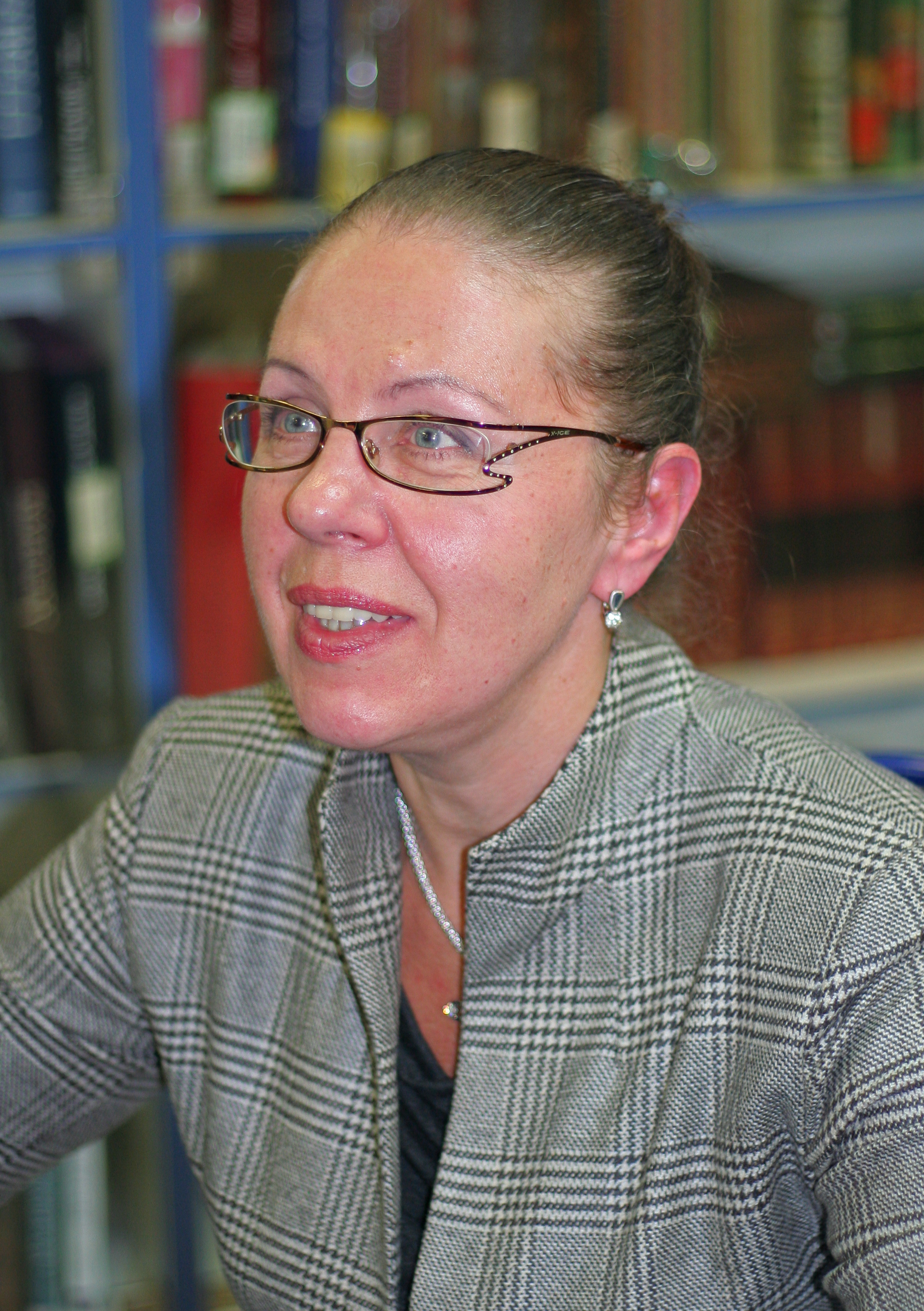 Russian author Alexandra Marinina during an authograph session in Moscow